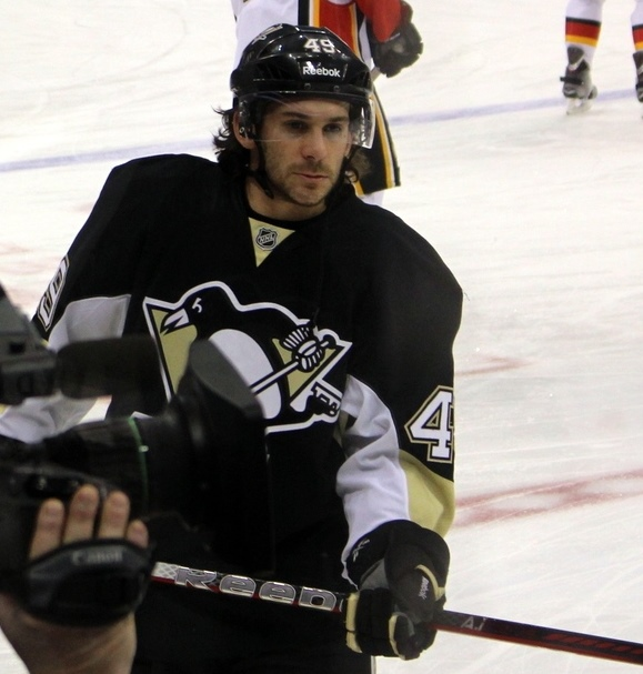 Pittsburgh Penguins forward Brian Gibbons skating against the Calgary Flames, December 21, 2013 at Consol Energy Center in Pittsburgh, PA.